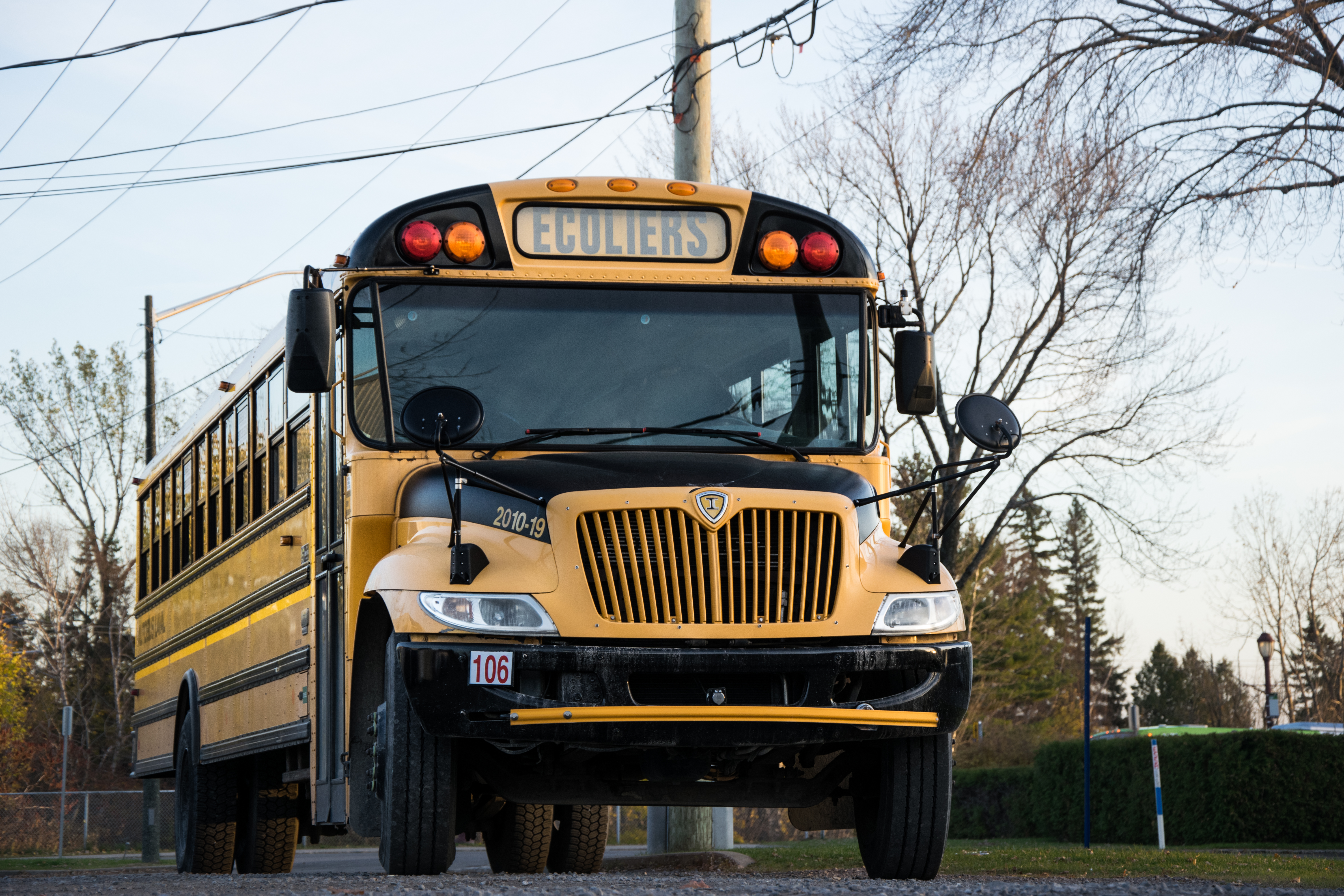 A yellow school bus near Quebec City, Quebec, Canada.